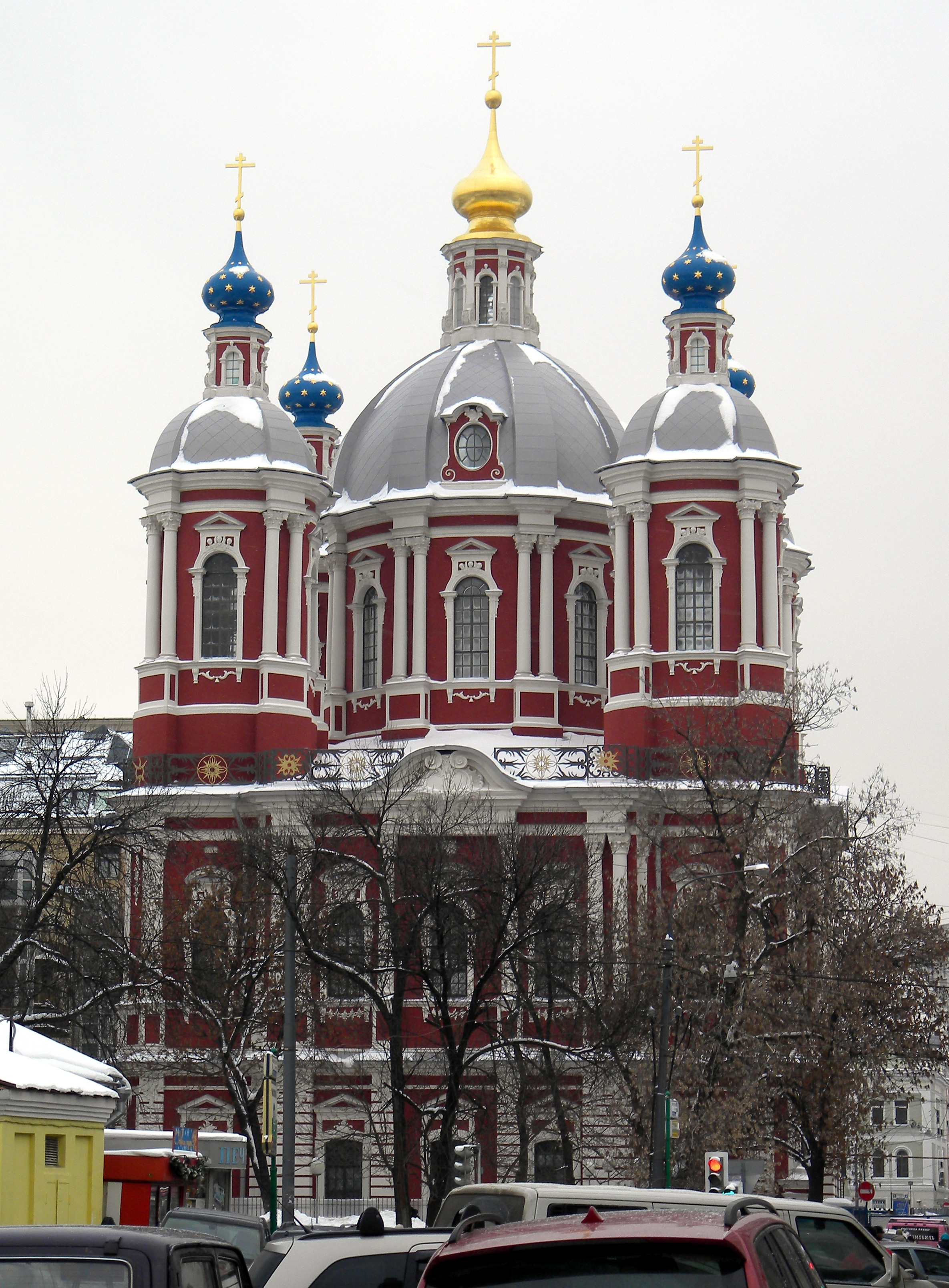 Church of Saint Clement, the Pope of Rome. Built in 1612, no FoP violence